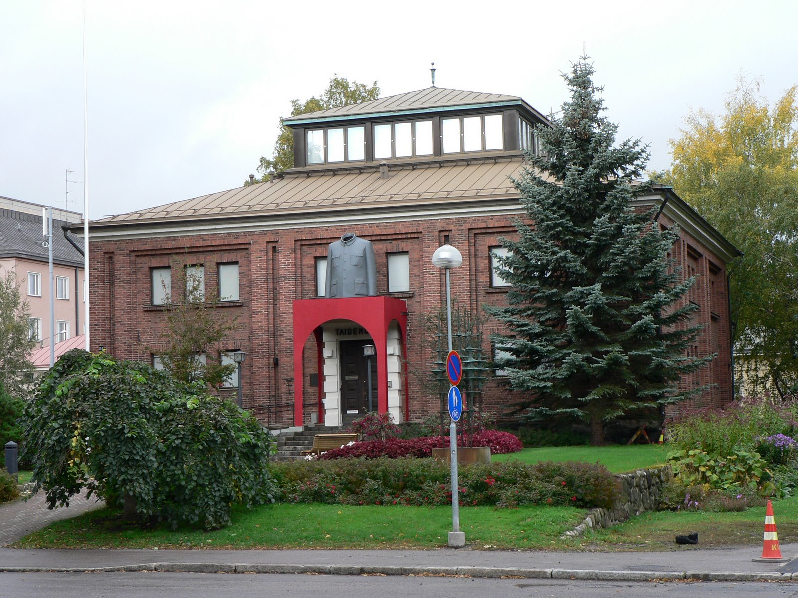 Tampere Art museum